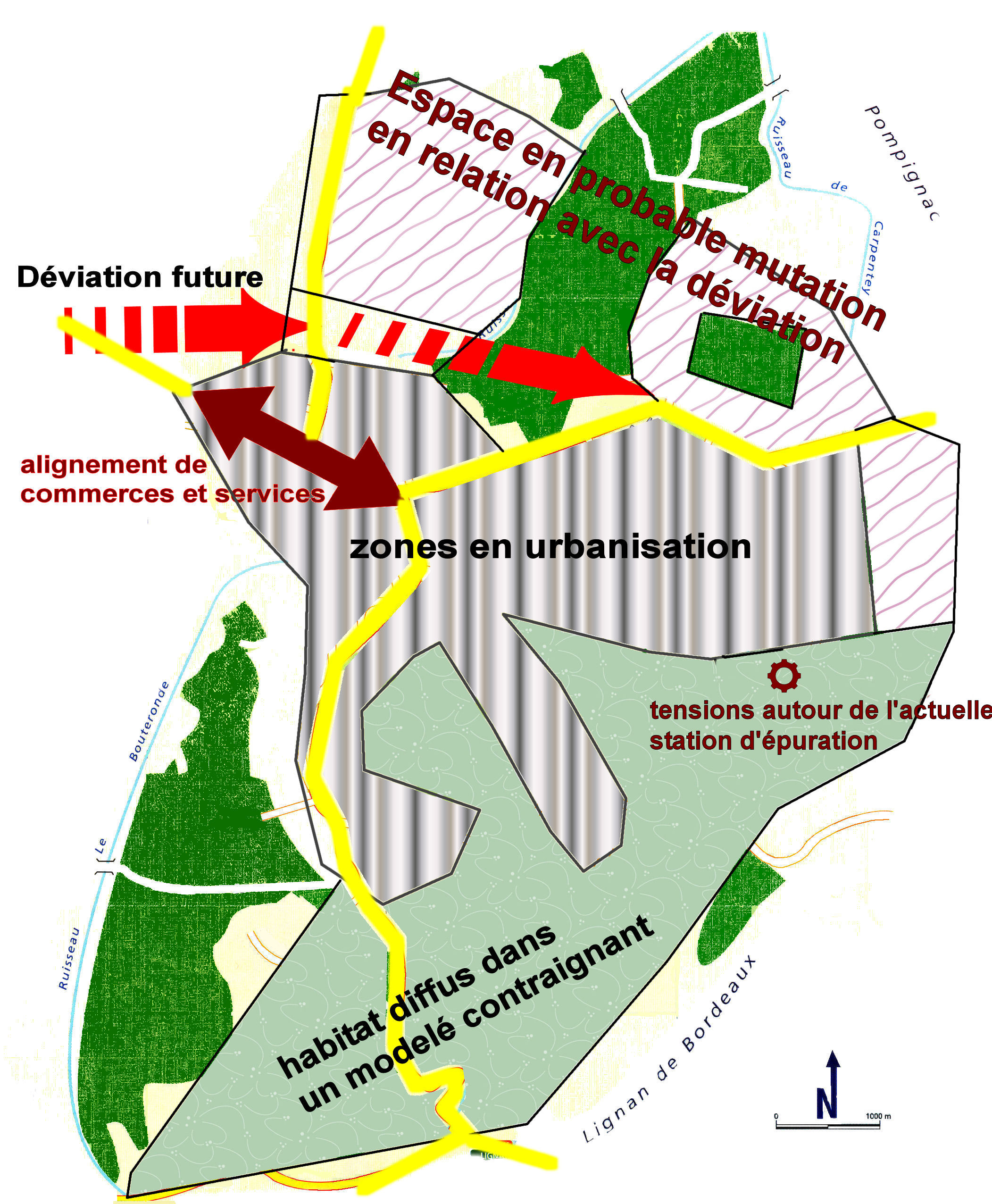 Territorial dynamics in the village of Fargues-Saint-Hilaire